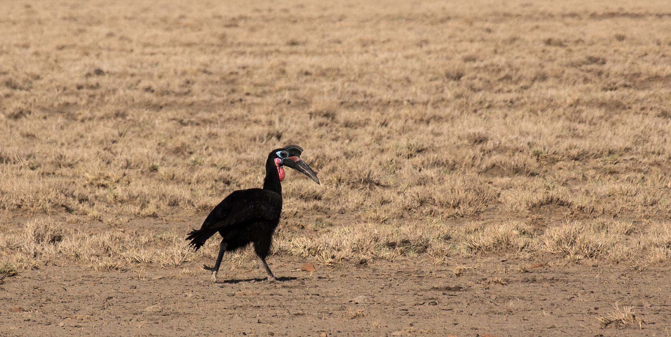 Abyssinian ground hornbill in the wild in Ethiopia